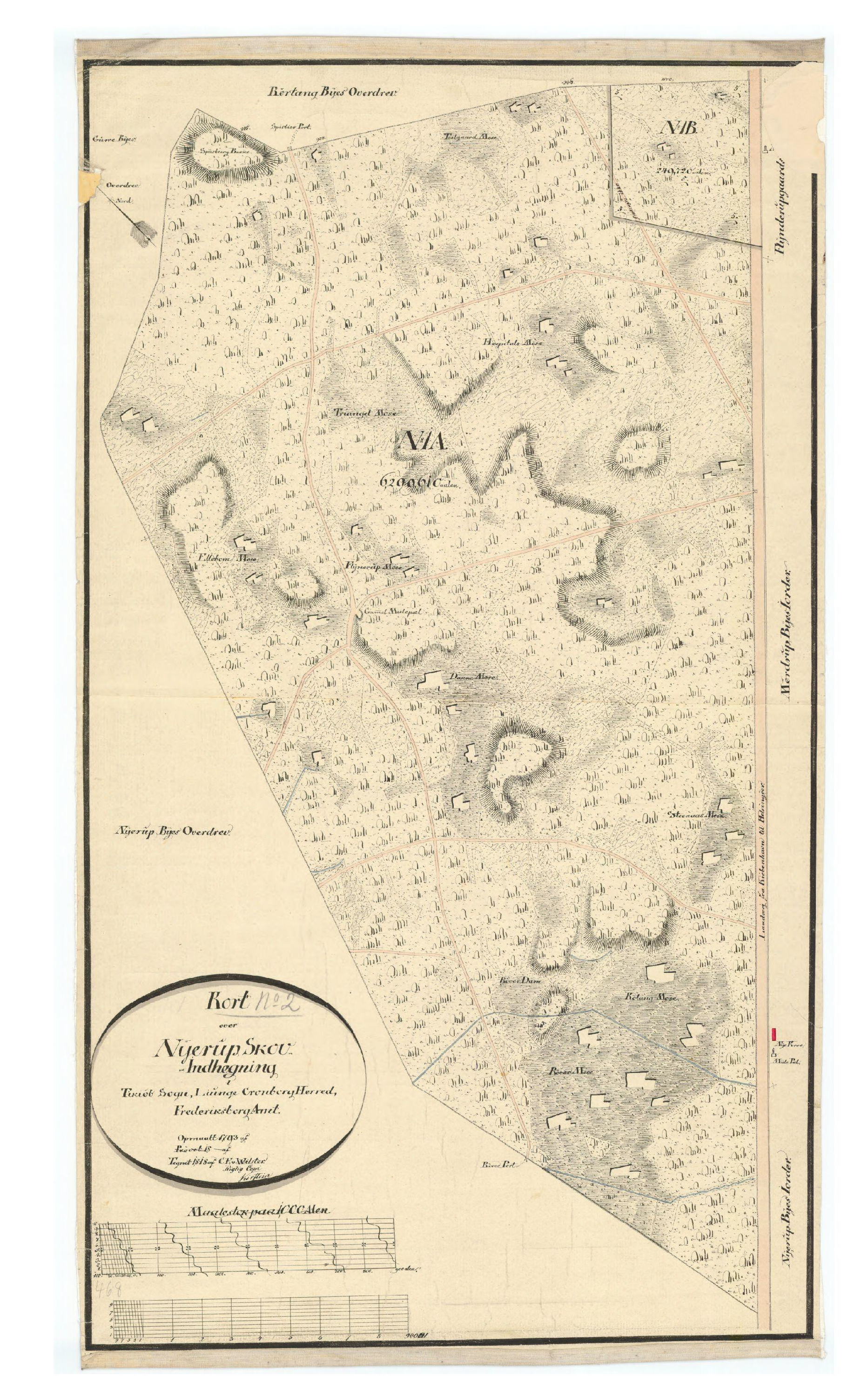 Nyrup Hegn 1862-1878 matrikelkort